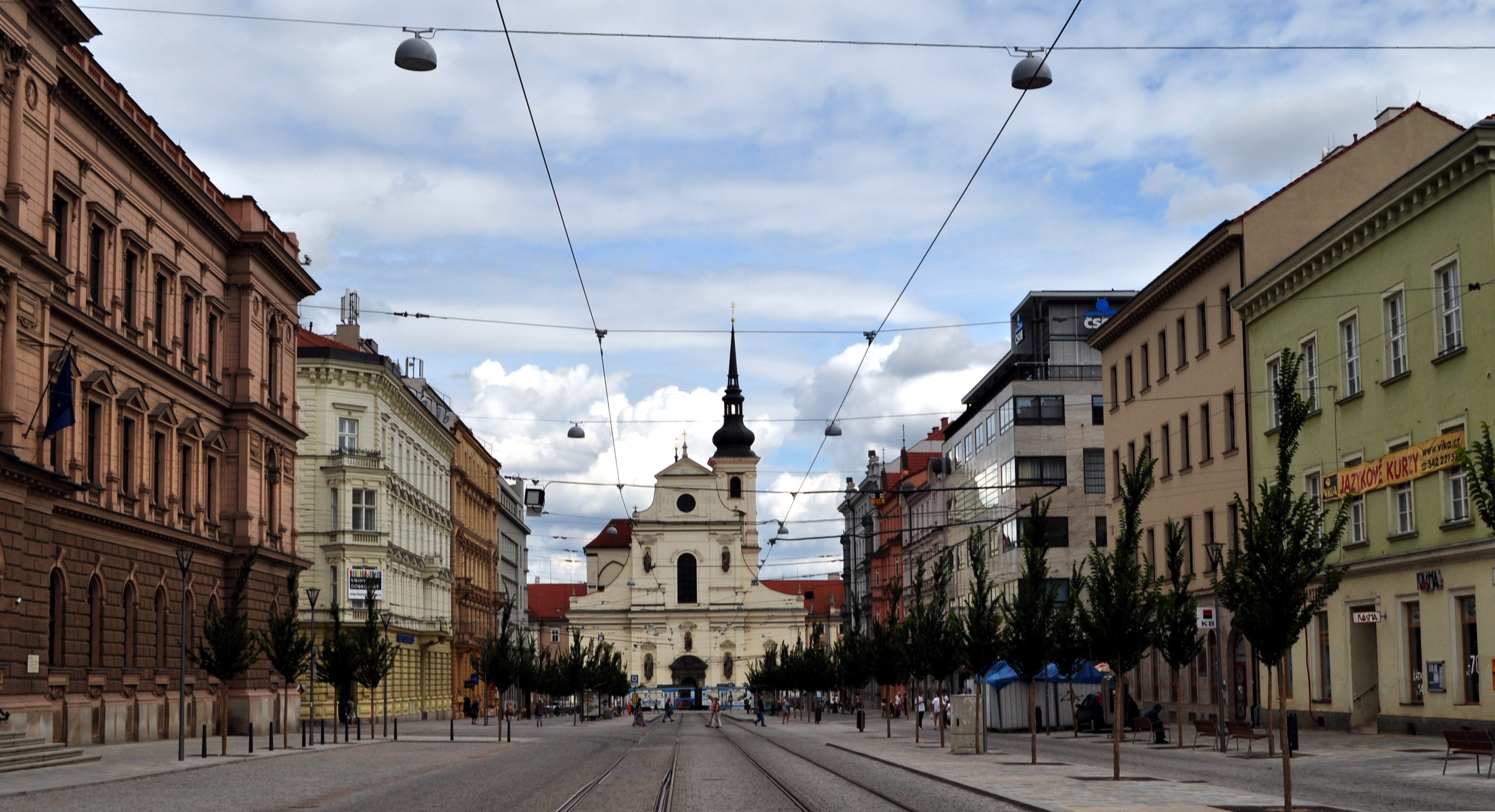 Joštova street and Church of Saint Thomas and the Annunciation on Moravian square in Brno, Moravia, Czech Republic.